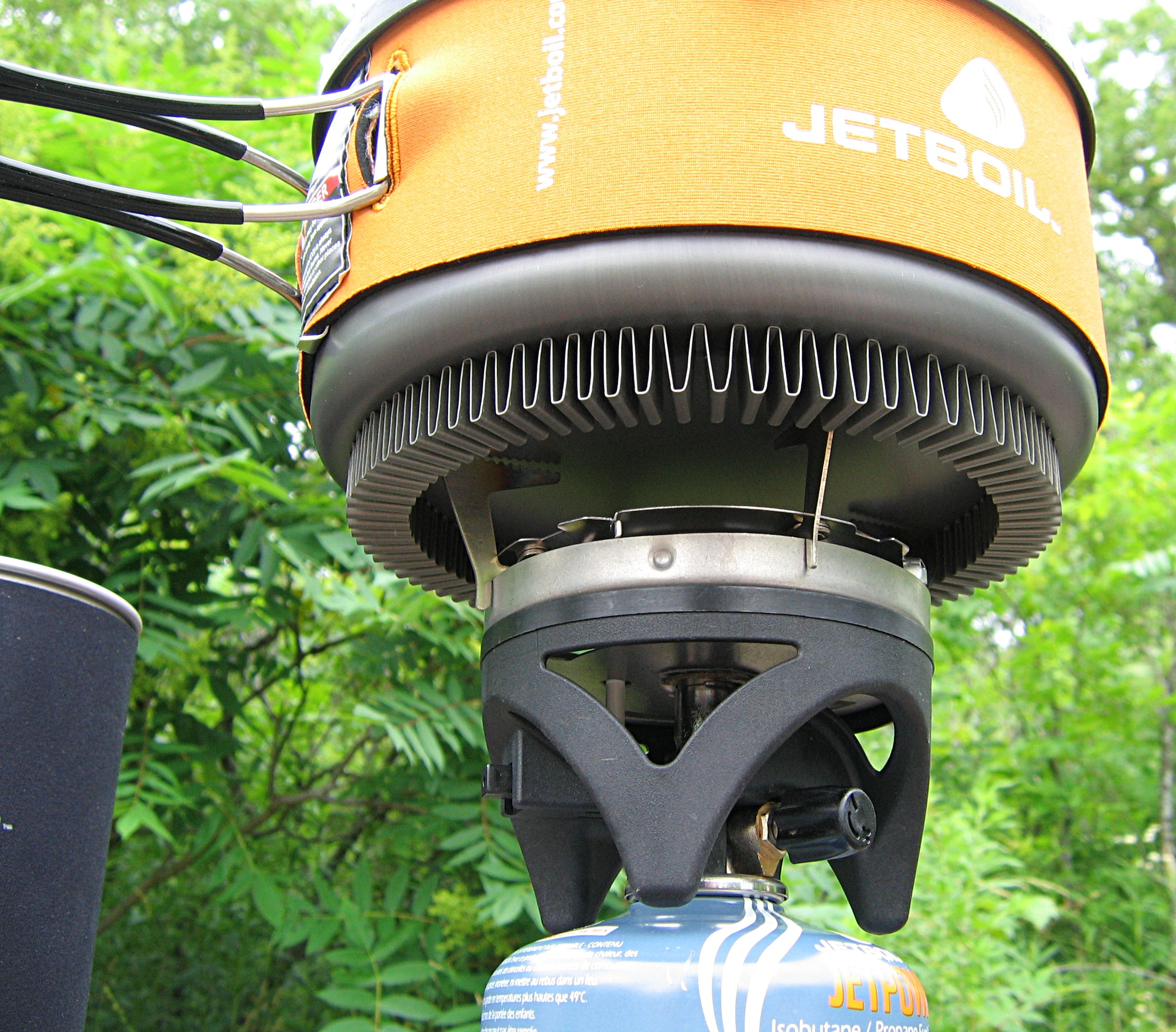 A photo of a JetBoil camping stove underneath a JetBoil 1.5L Cooking Pot.